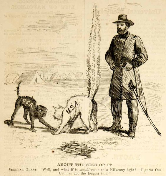 1864 black and white in-text wood engraving cartoon of General Ulysses S. Grant